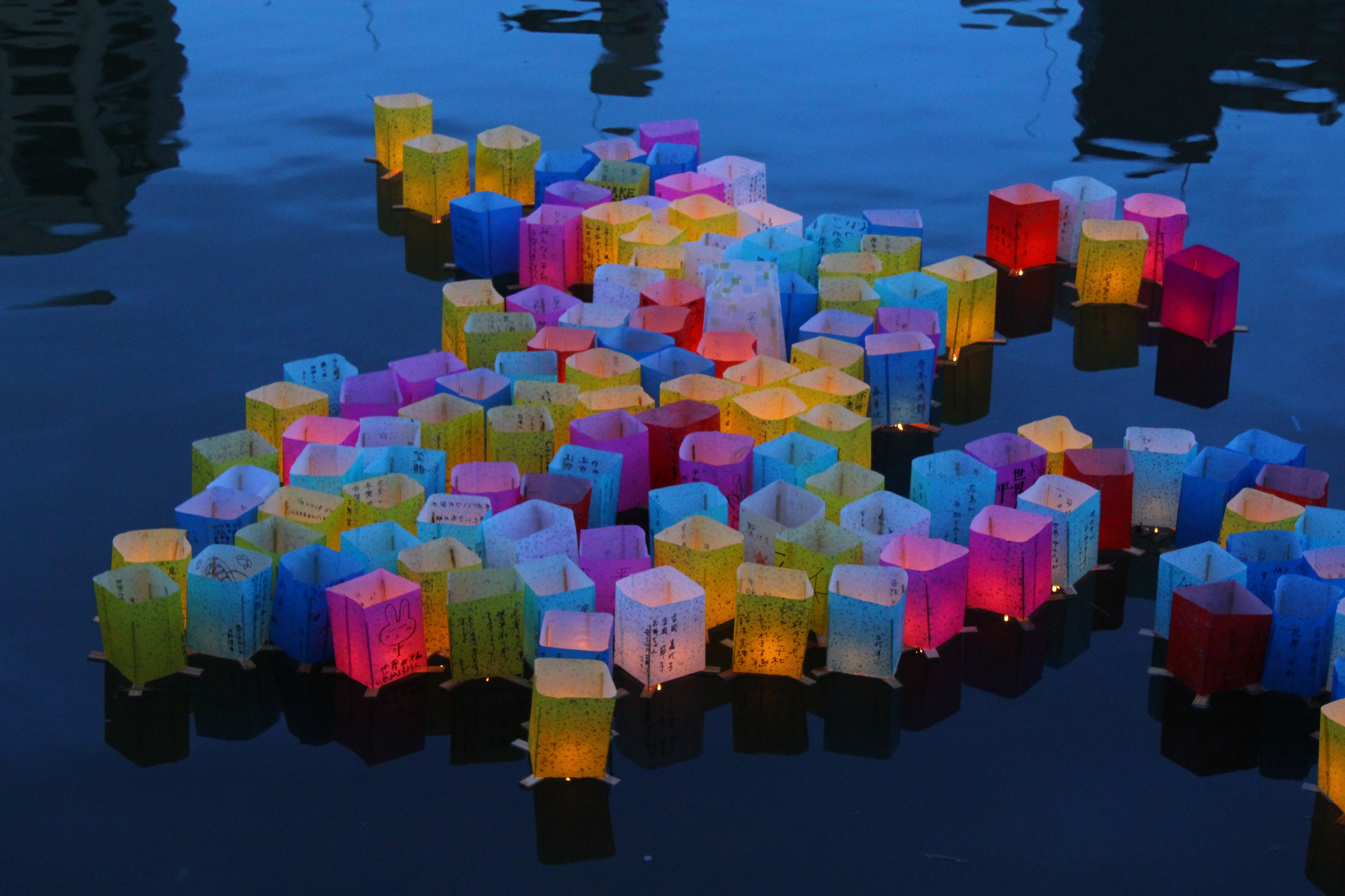 Hiroshima Lantern Festival